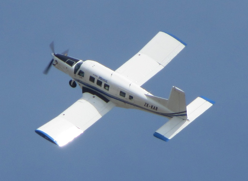 PAC P-750 XSTOL